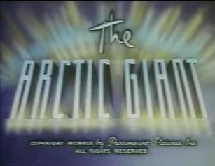 Shot of Title screen from the animated short The Arctic Giant.